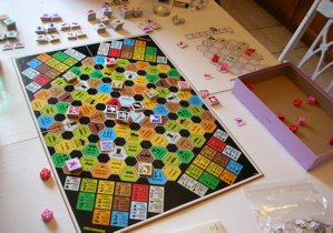 Example of a Titan game.